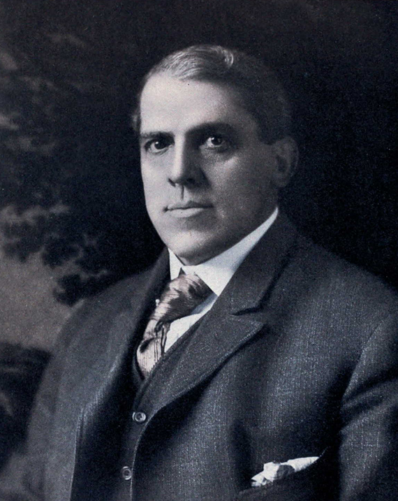 Photograph of Chase Osborn